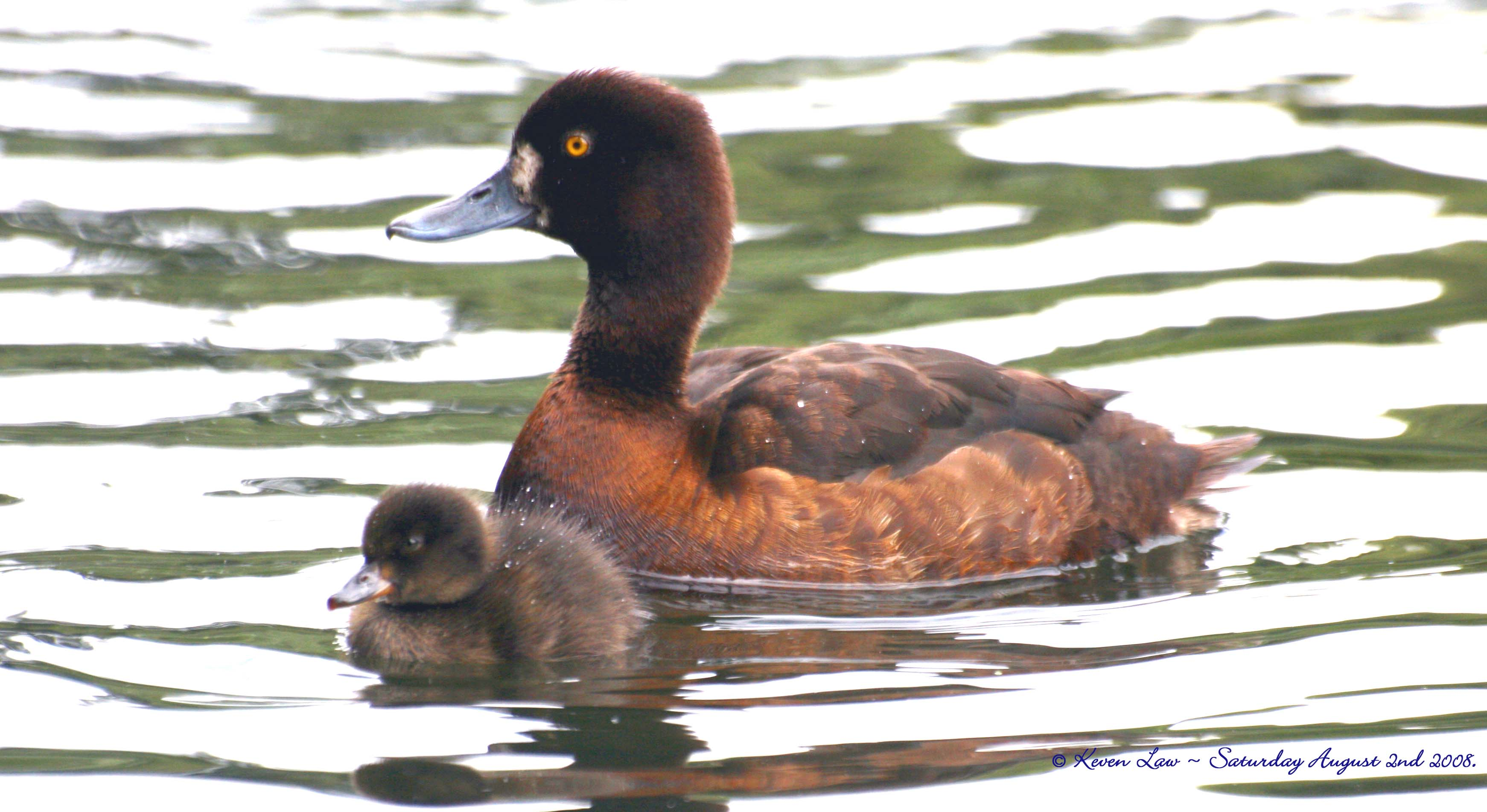 Goldeneye Ducks - Hyde Park, London, England - Saturday August 2nd 2008. Click here to see the Larger image